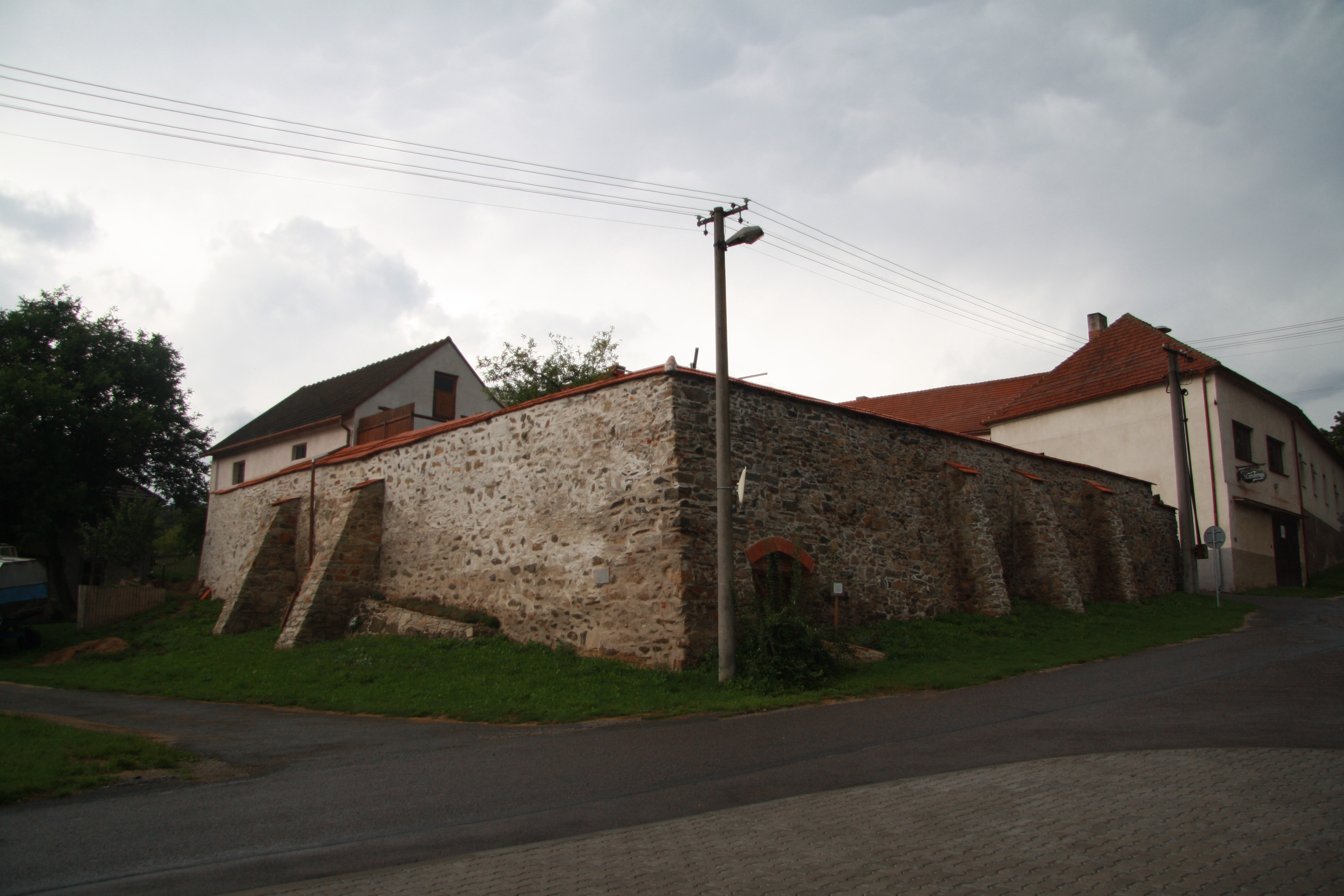 Old castle in Jasenice, Třebíč District.